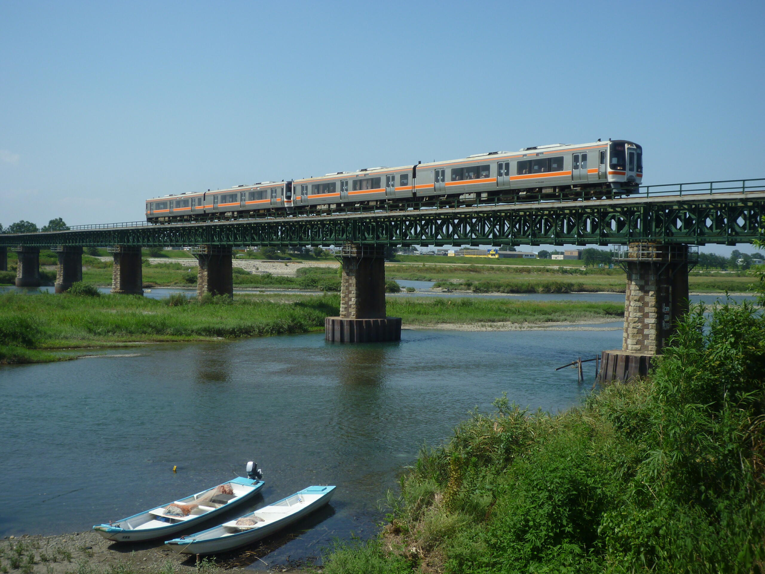 The Miyagawa railway bridge of JR Central Sangū Line(Mie, Japan) from east side